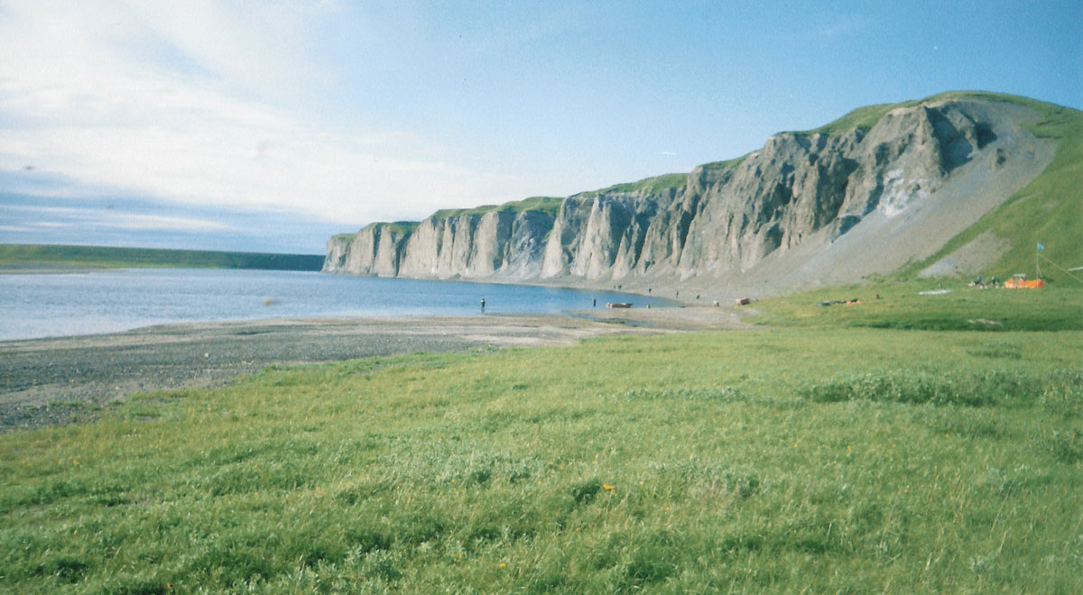 The lower section of Kara River, Russia